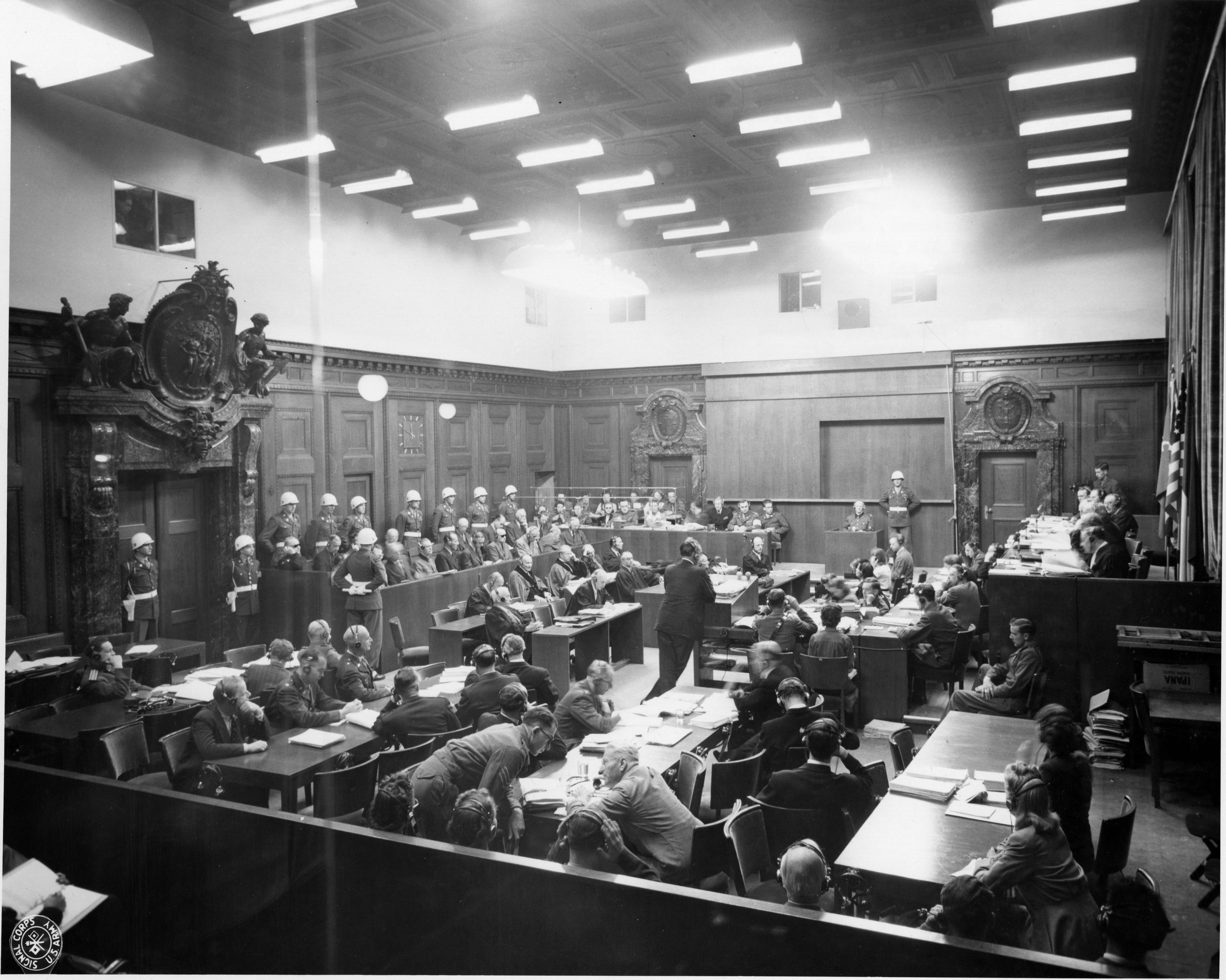 The Case Against the Defendents: Robert Jackson, United States Chief Prosecutor presents evidence to the courtroom during the Nuremburg Trials.(WW II Signal Corps Photograph Collection.)